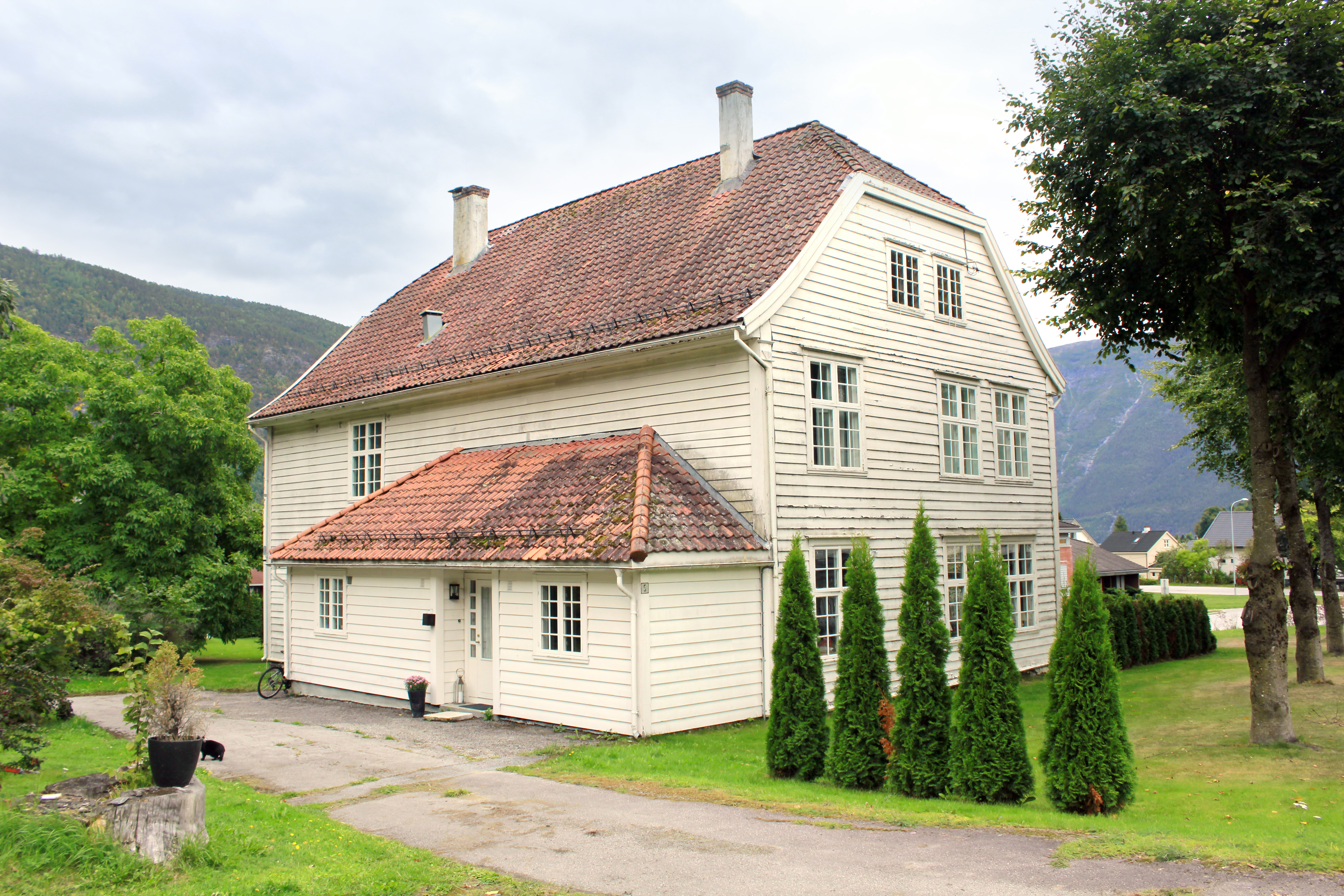 Sogndal Clergy house from the mid 19th Century, Norway